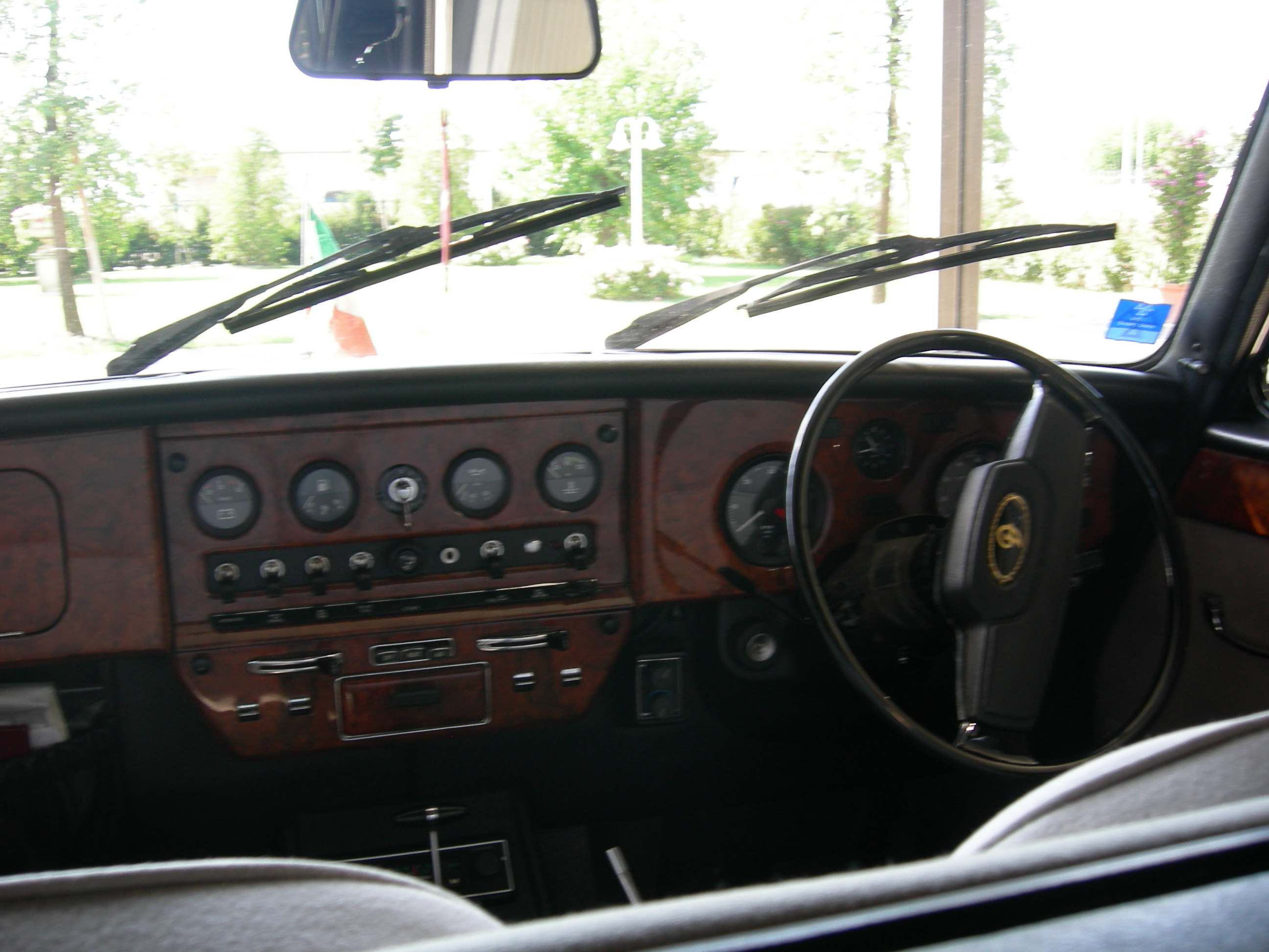 Daimler DS420 dashboard